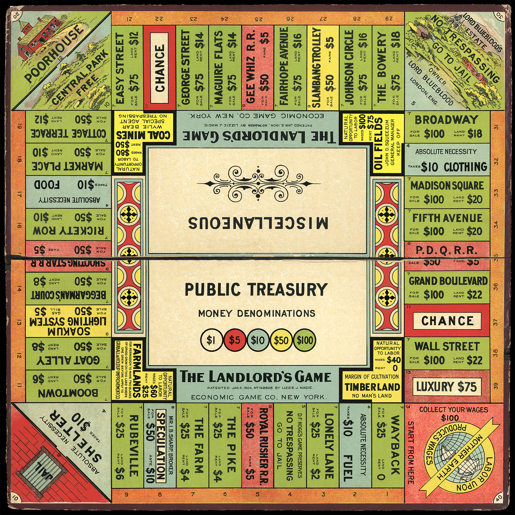 Landlords Game® ~ 1906, board game. Designed by: Lizzie J. Magie (Phillips); Published by Economic Game Company, New York, 1906; Patent Filed: Mar 23, 1903 - No.149,177 - Lizzie J. Magie; Patent Granted: Jan 05, 1904 - No.748,626 - Lizzie J. Magie; Image courtesy of Thomas Forsyth owner of the REGISTERED TRADEMARK "The Landlord's Game®"